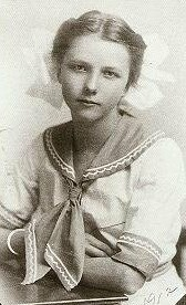 Ruth Becker c. 1915